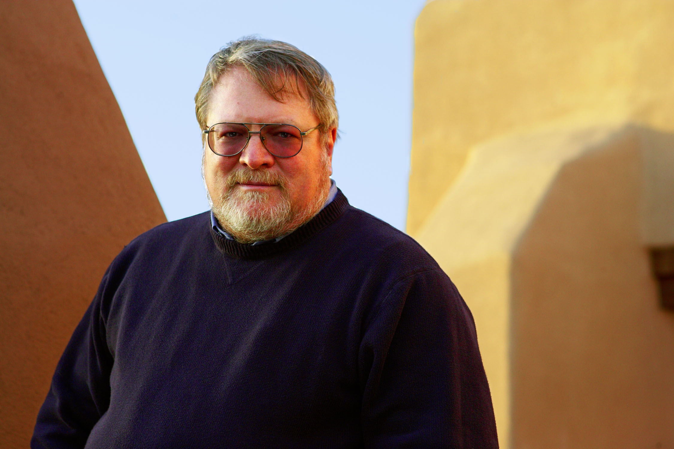 Cranberry987